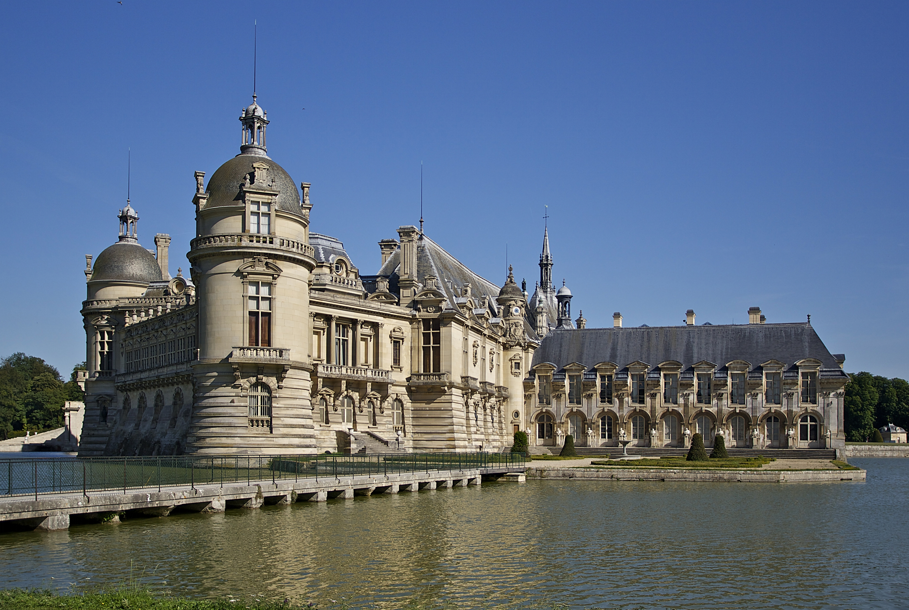 Chantilly castle, Oise department, France, as seen from north-west.